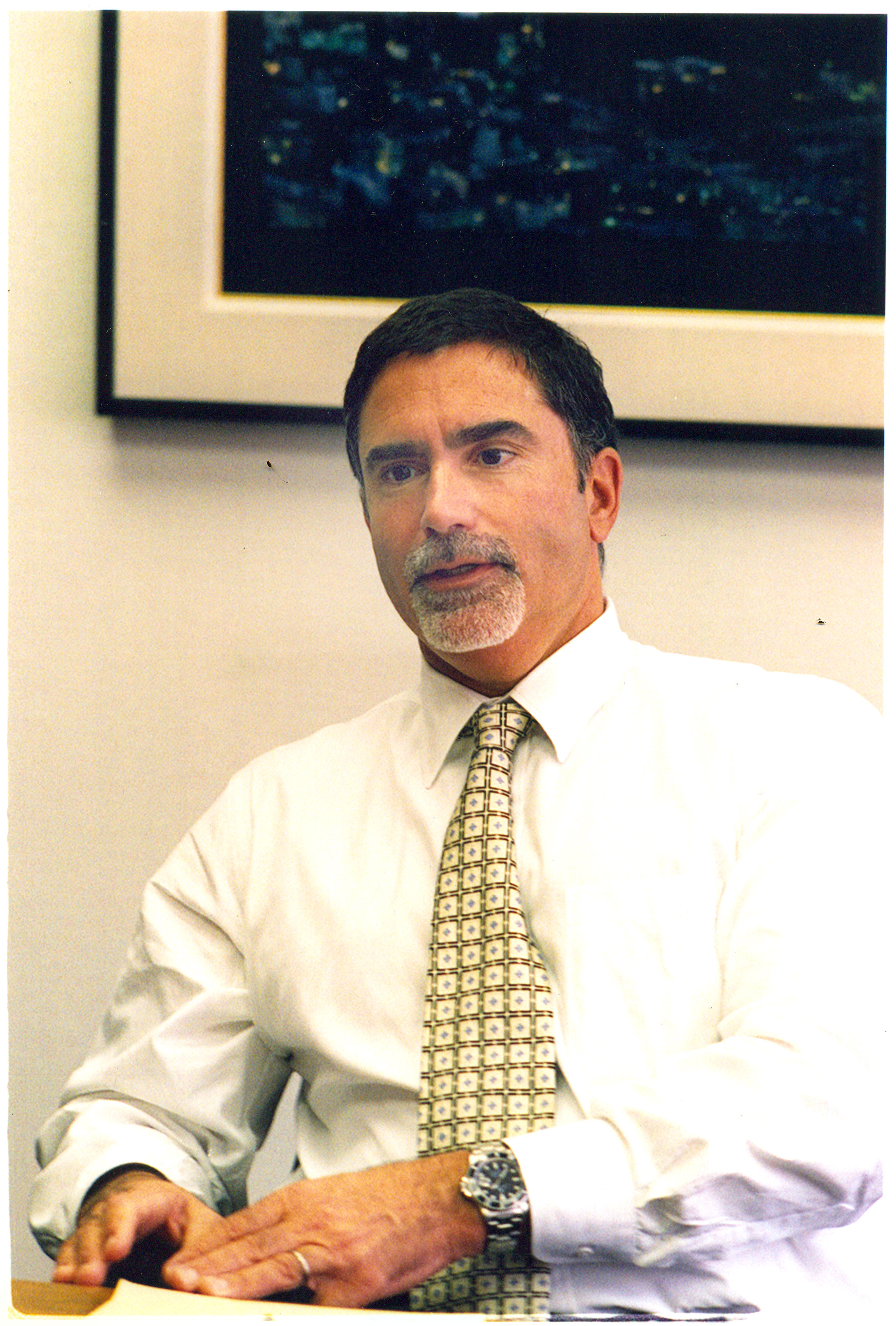 Phil Bronstein, an American journalist and editor was Former Editor of the San Francisco Chronicle and SF Examiner and now is the executive chair of the board for the Center for Investigative Reporting in Berkeley, Califortnia. 1999 photograph by Nancy Wong in San Francisco